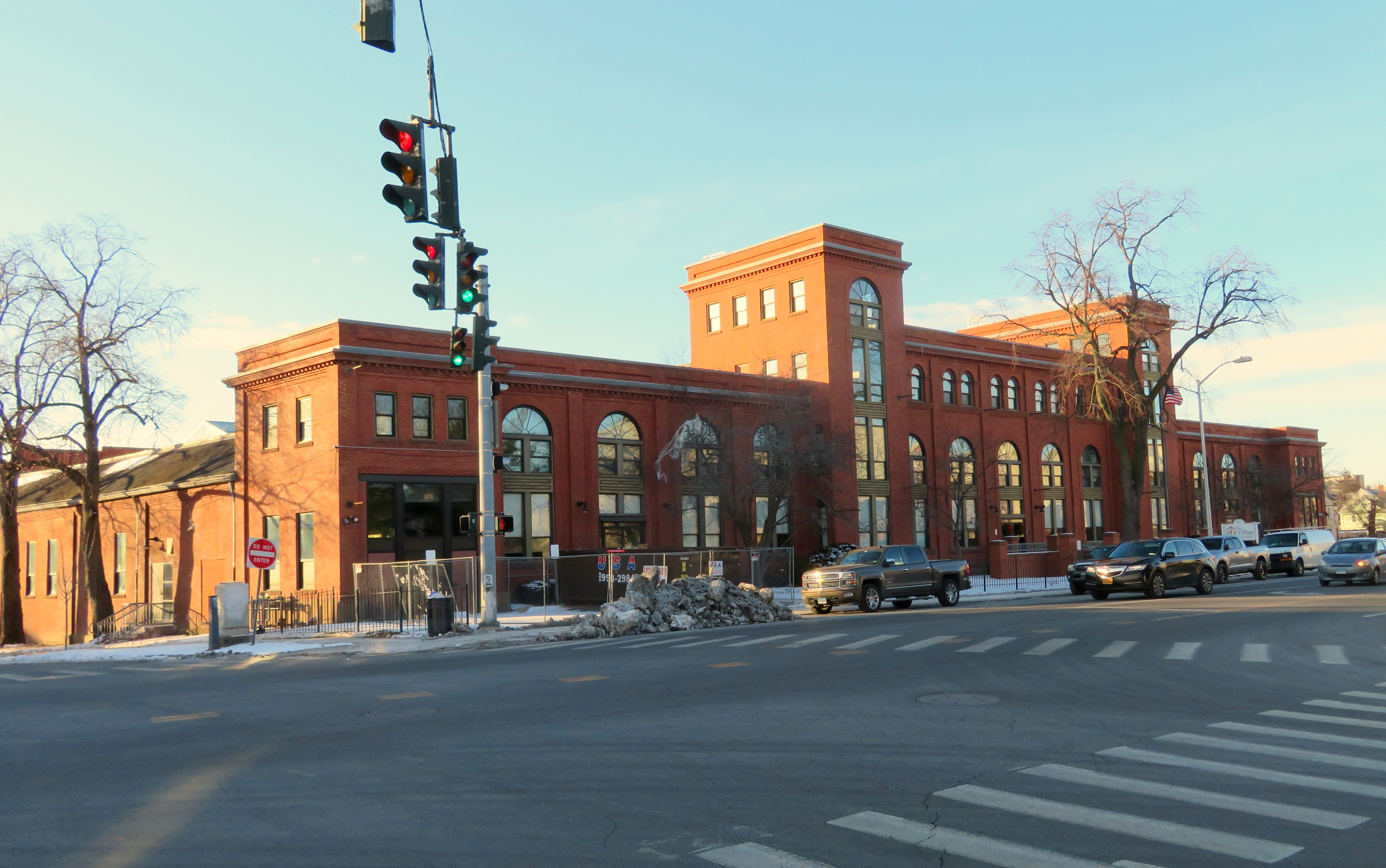 The former Wethersfield Avenue Car Barn in December 2017